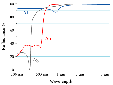 Reflectance vs. wavelength curves for aluminium (Al), silver (Ag), and gold (Au) metal mirrors at normal incidence. For optical coating. By Bob Mellish